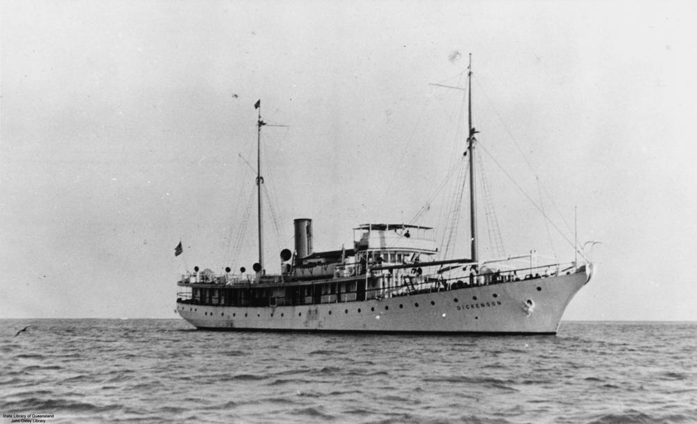 The Commercial Pacific Cable Company's cable-laying ship Dickenson, built by Sun Shipbuilding and Dry Dock Co in Chester, PA in 1923. She was commissioned into the US Navy in 1942 as the auxiliary ship USS Kailua (IX-71).